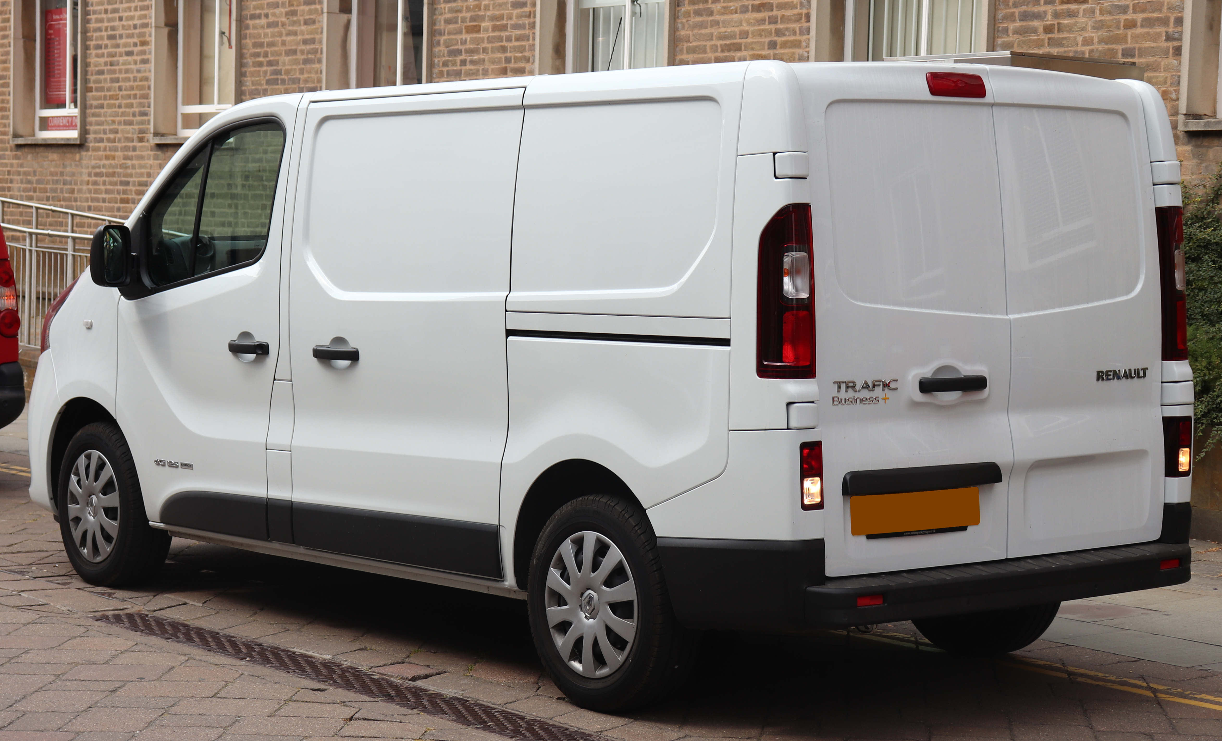 2018 Renault Trafic SL27 Business+ Energy 1.6 Rear Taken in Warwick